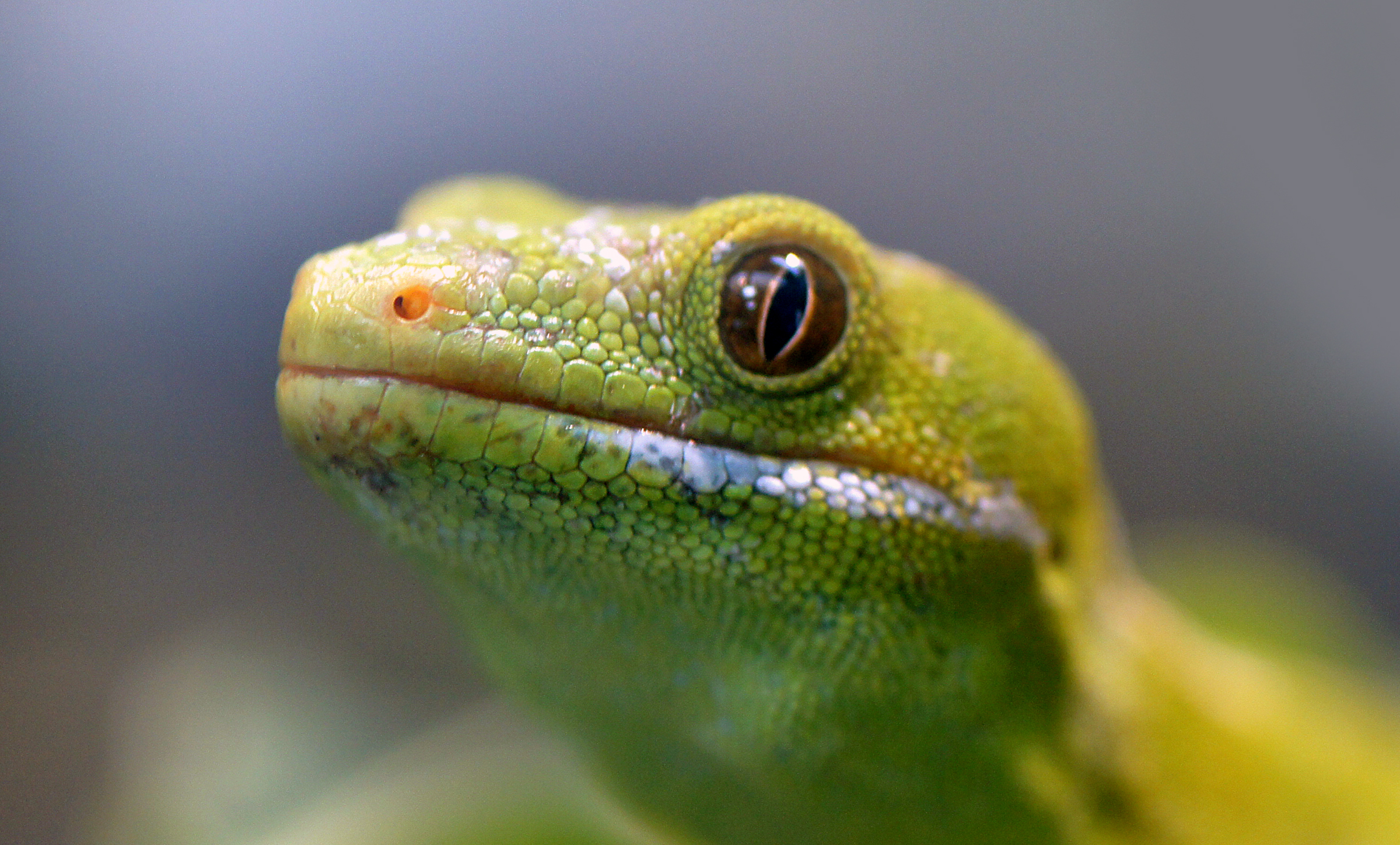 The Northland Green Gecko is found only in the Northland region of New Zealand, north of Whangaroa. It is vivid green, with gray or gold highlights, on either side - along the dorsal edges. Males have a blue band along the sides, below the limbs, and the underbelly of both sexes is bright pale green and sometimes with a yellow tinge. Growth is to 200 mm.